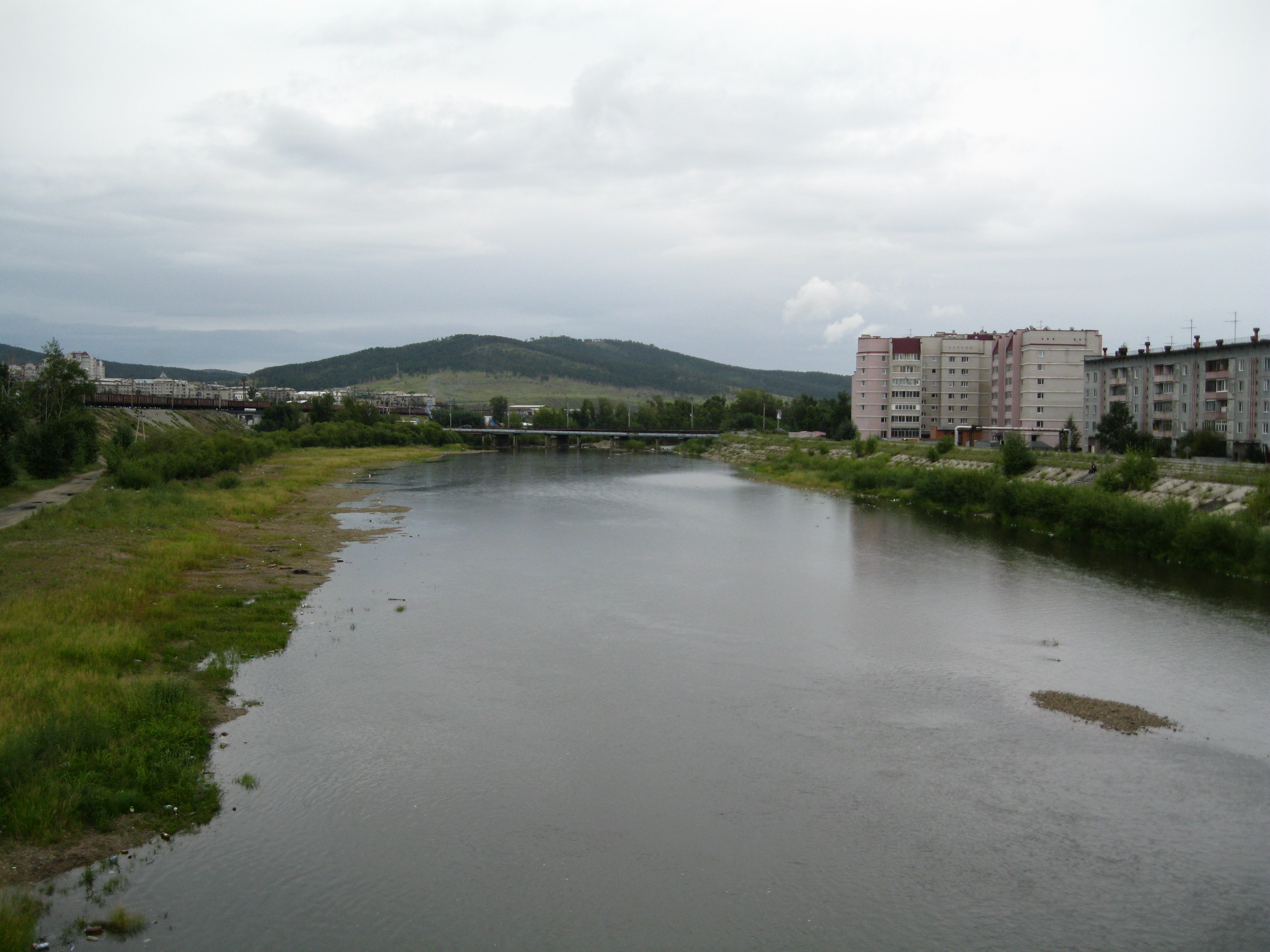 View on Chita river, Russia